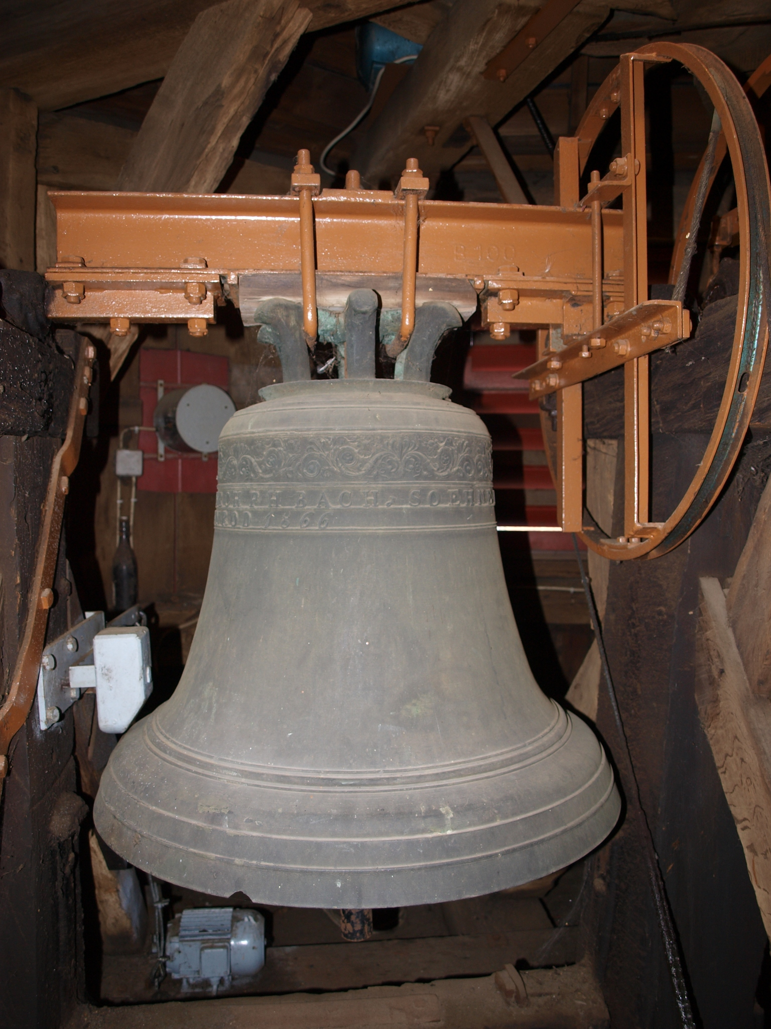 Bell of the protestant church of Burg-Gräfenrode, cast 1866 by Ph. H. Bach & Sons in Windecken